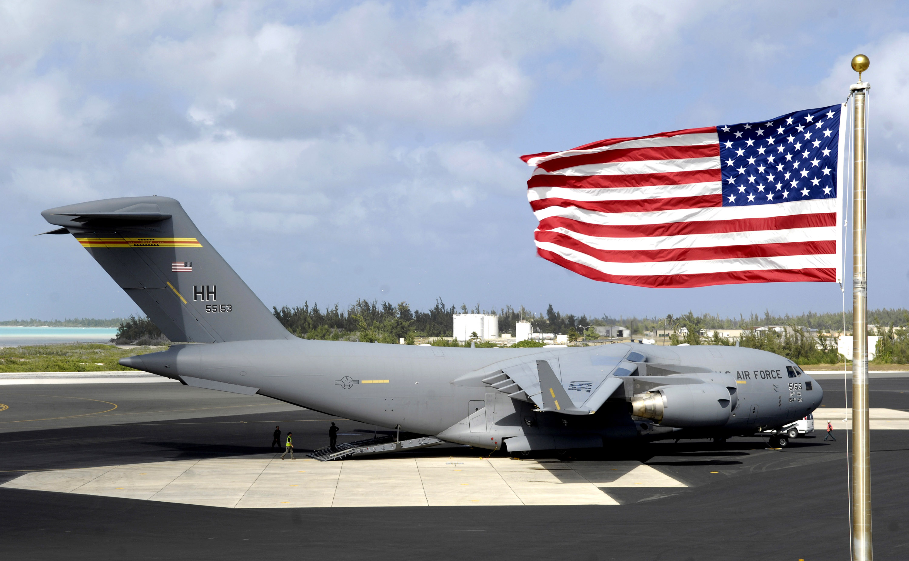 A C-17 Globemaster III sits on the flight line at Wake Island on January 12, 2008. The C-17, from the 15th Airlift Wing, Hickam Air Force Base, Hawaii, brought members of Pacific Air Forces headquarters to conduct a site survey of the island.